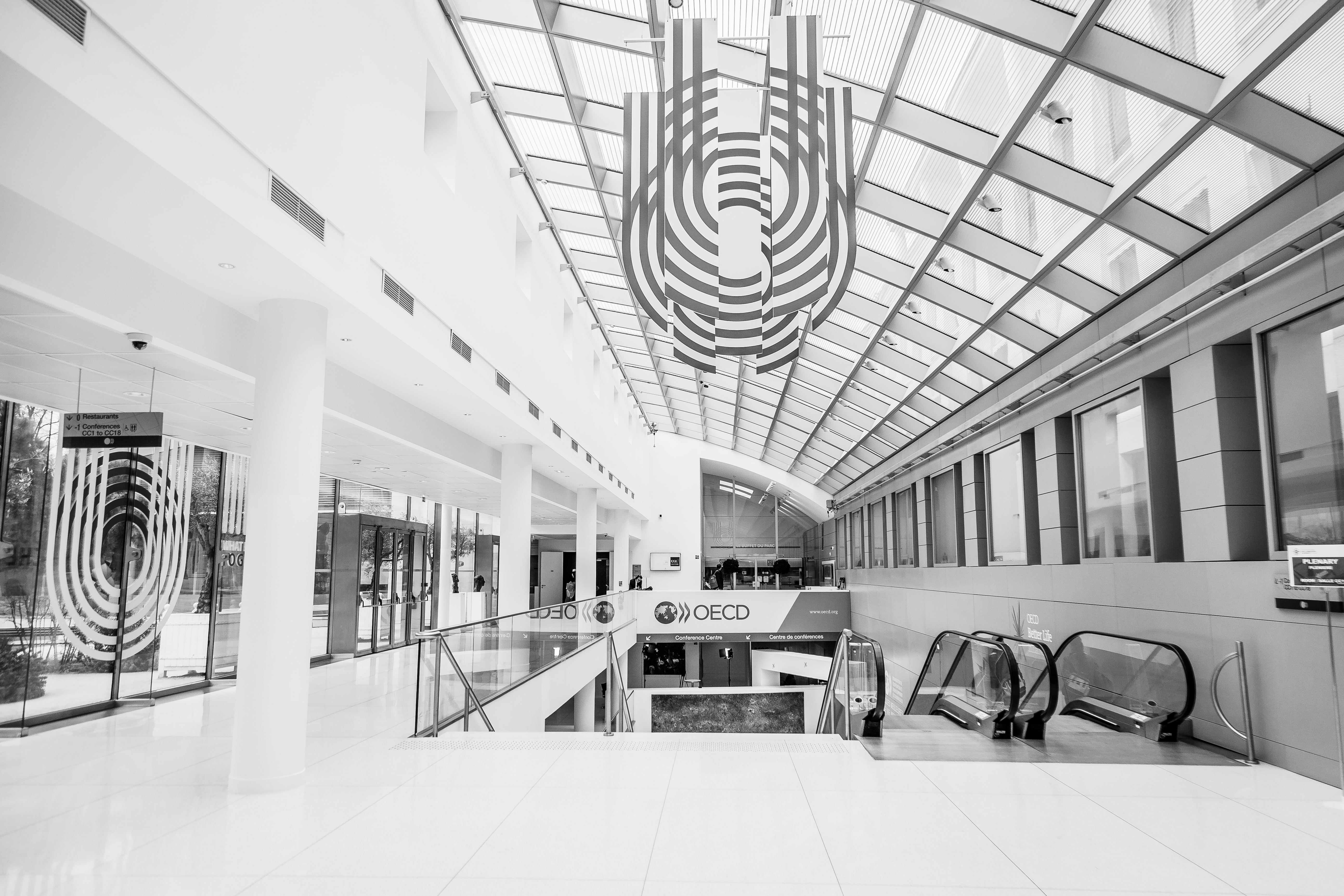 Our stunning venue was thanks to TICTeC's hosts, the OECD.